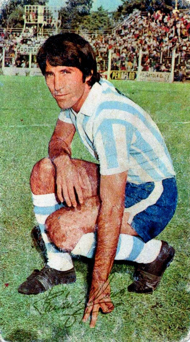 Rubén Osvaldo Panadero Díaz (1946-2018), former player of Racing Club de Avelleneda.